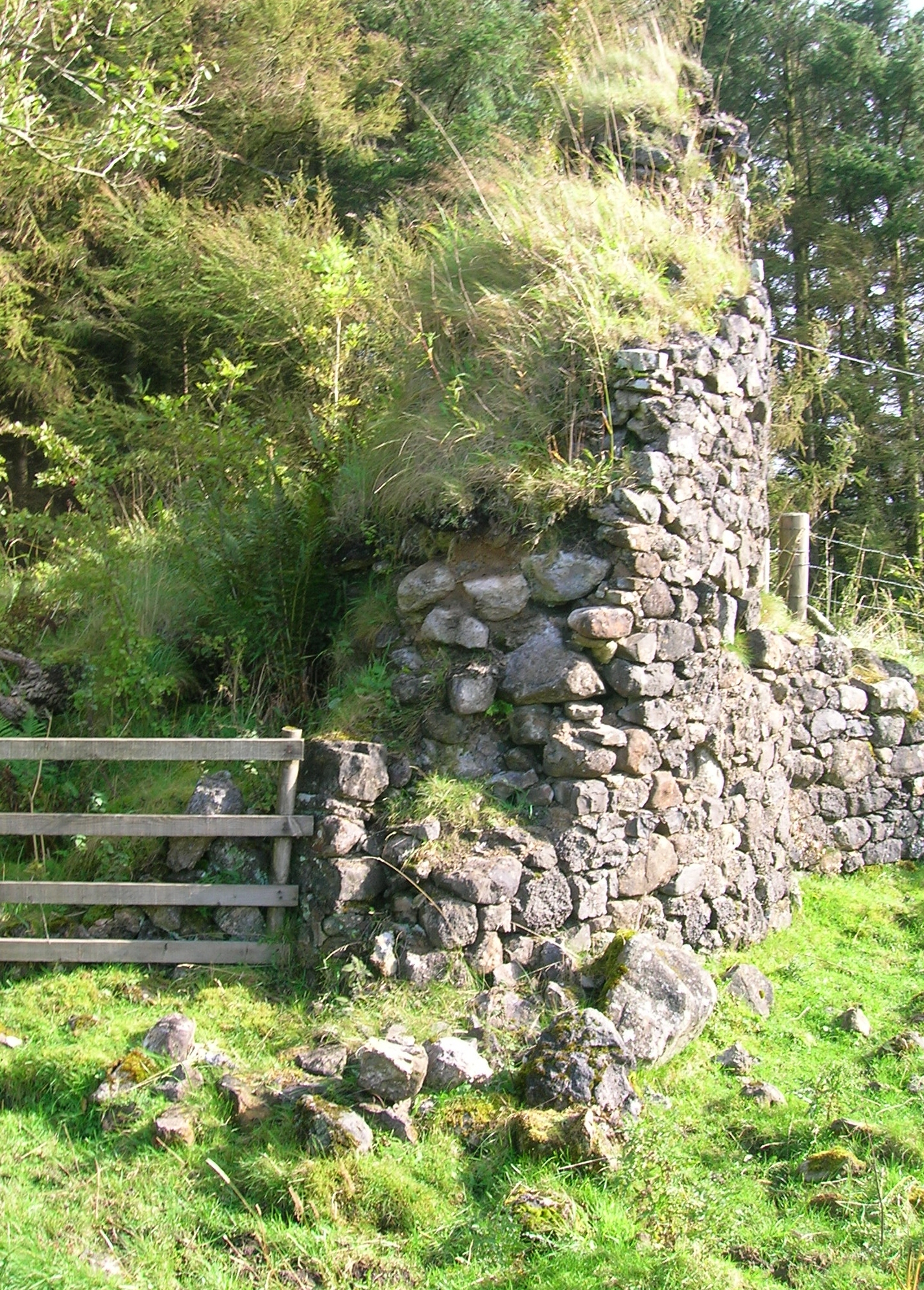 Detail of the tower wall construction at Achinbathie Tower, Renfrewshire, Scotland.